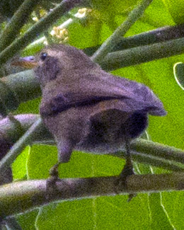 A Giant White-eye also referred to as the Palau Greater White-eye (Megazosterops palauensis) photographed in Palau on 31 May 2013 by Devon Pike.